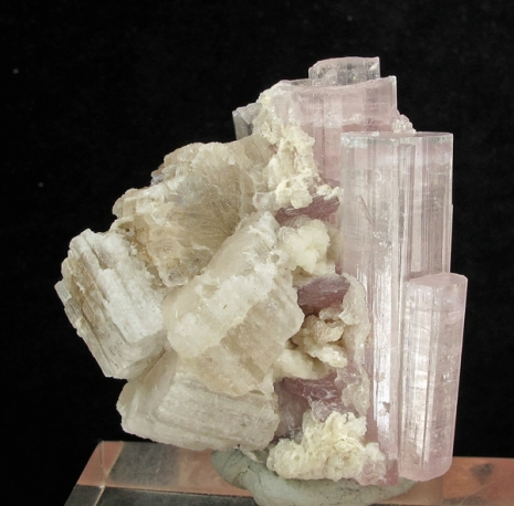 Beryllonite, Elbaite Locality: Paprok Mine (Papruk Mine; Paprowk Mine), Kamdesh District, Nuristan Province (Nurestan Province; Nooristan Province; Nuristan), Afghanistan Size: 5.9 cm x 5.5 cm x 4 cm Beryllonite is a rare sodium, beryllium phosphate found in granitic and alkali pegmatites. It is uncommon from the pegmatites at Paprok and extremely rare in combination with a gorgeous cluster of gemmy pink tourmalines. The symmetry of this beautiful piece is outstanding. The parallel-growth cluster of striking, pristine, graduated in length, well-striated, gemmy and lustrous, pink elbaites is very artistic. The two frontal crystals have very nice, narrow, teal-blue terminations. Two generations, tan or white, of lustrous, translucent, parallel-growth beryllonite crystals form an impressive intergrown cluster next to the gemmy elbaites. Ex Herb Obodda specimen.